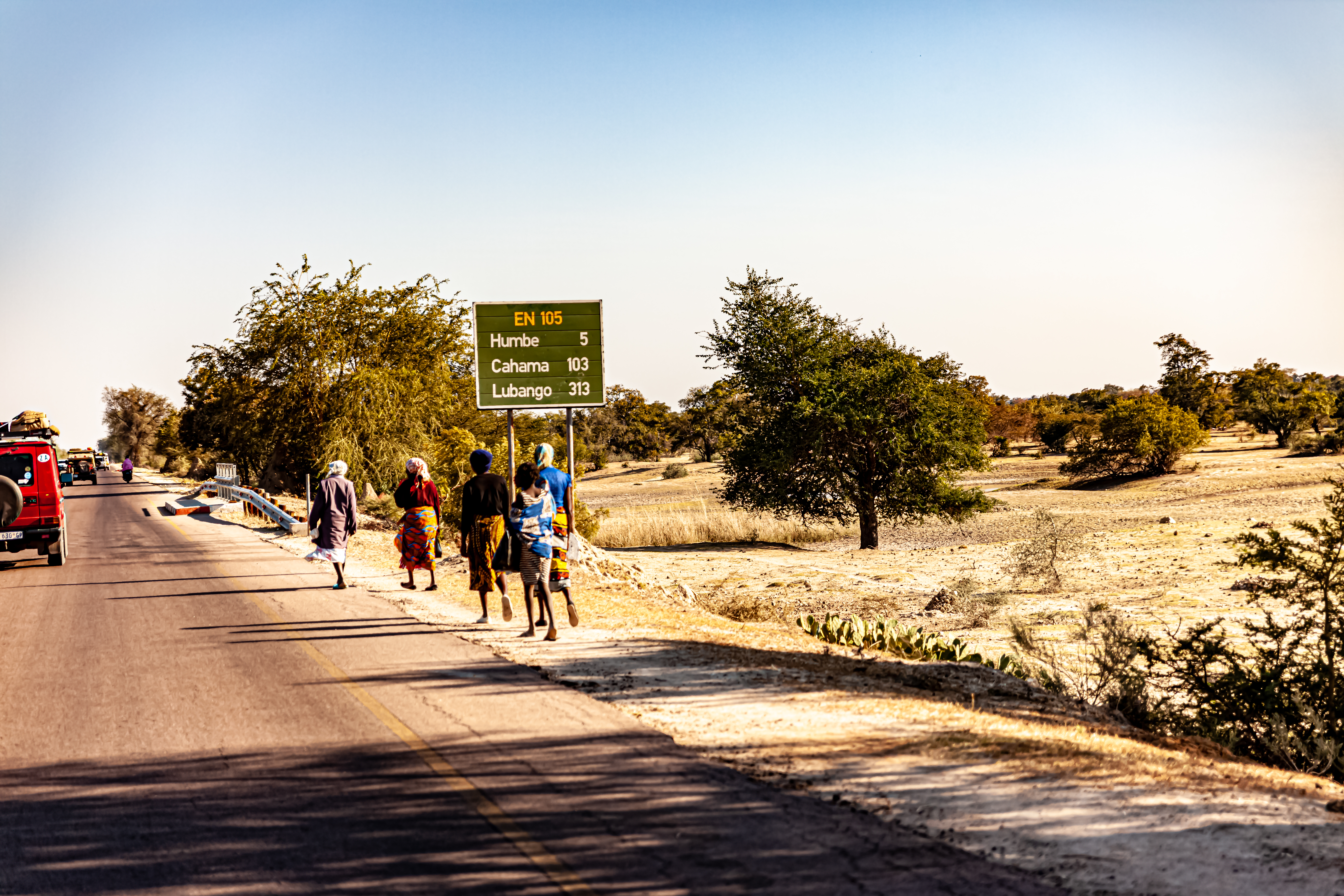 walking home to Humbe This is an image with the theme "Africa on the Move or Transport" from: Angola